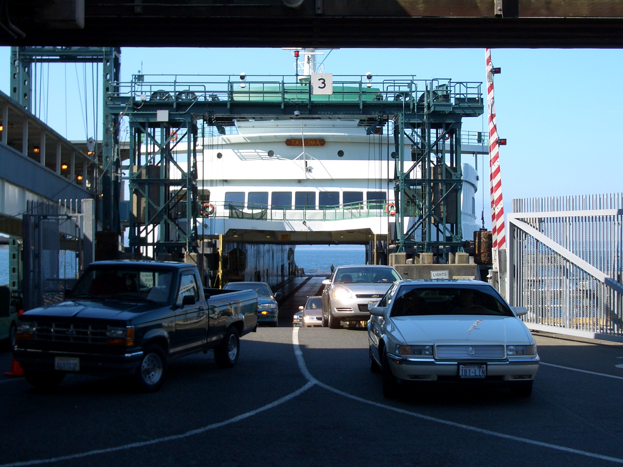 Cars getting off a ferry at Seattle Pier 52 Terminal. Note that you can look thru the empty ferry and see the bay on the far end!